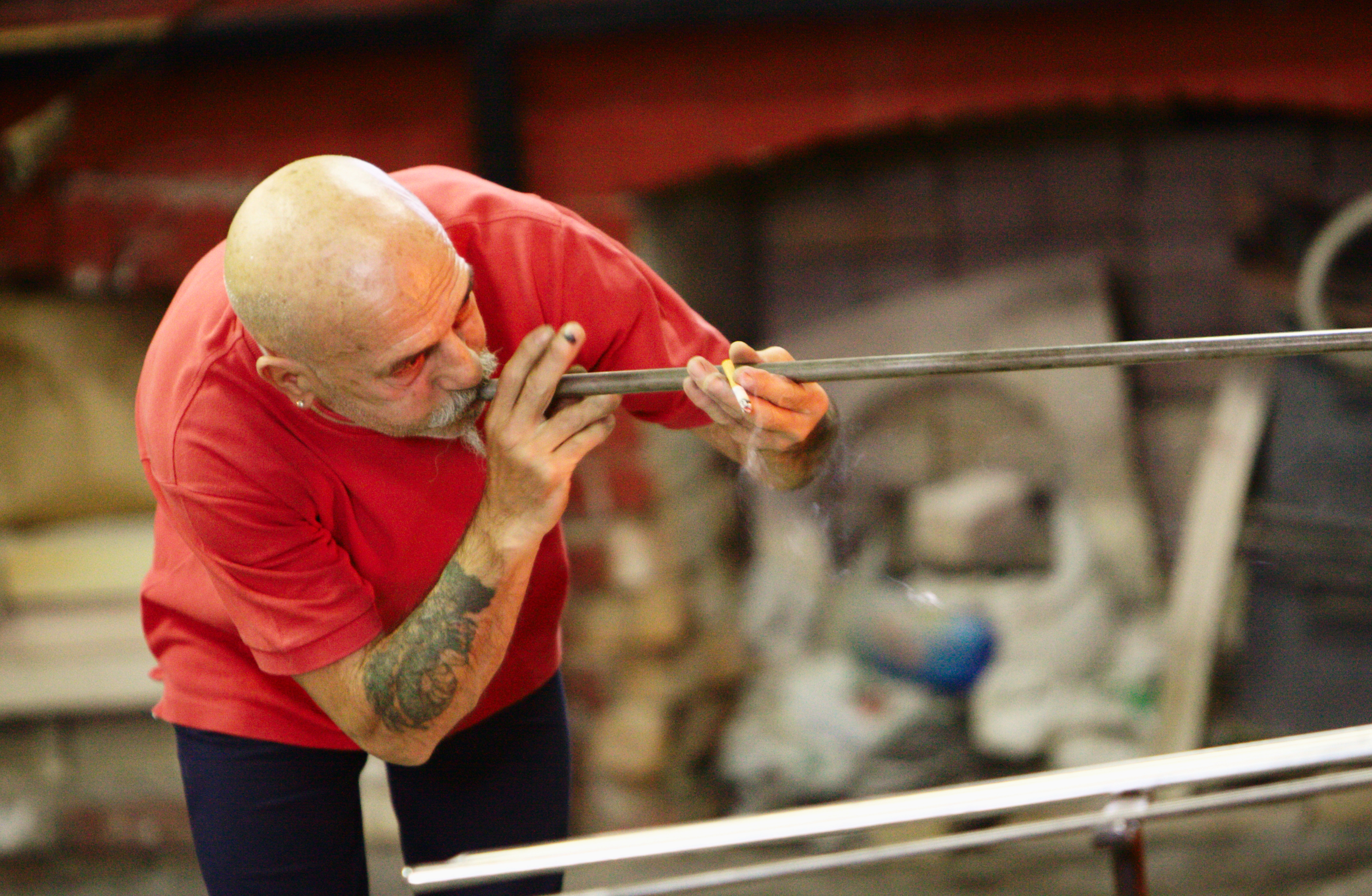 Vetreria Murano Arte glassmaker